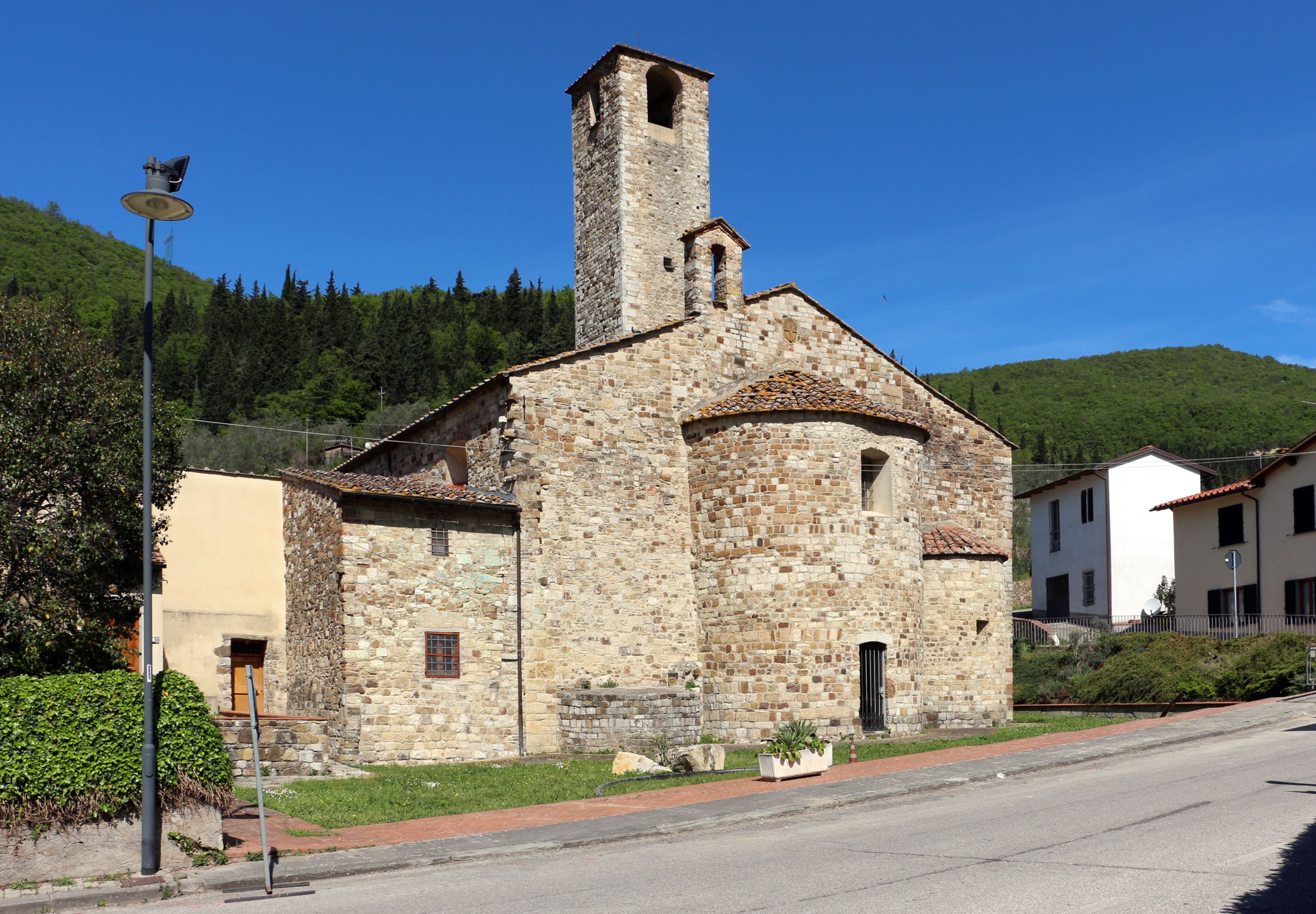 Calenzano